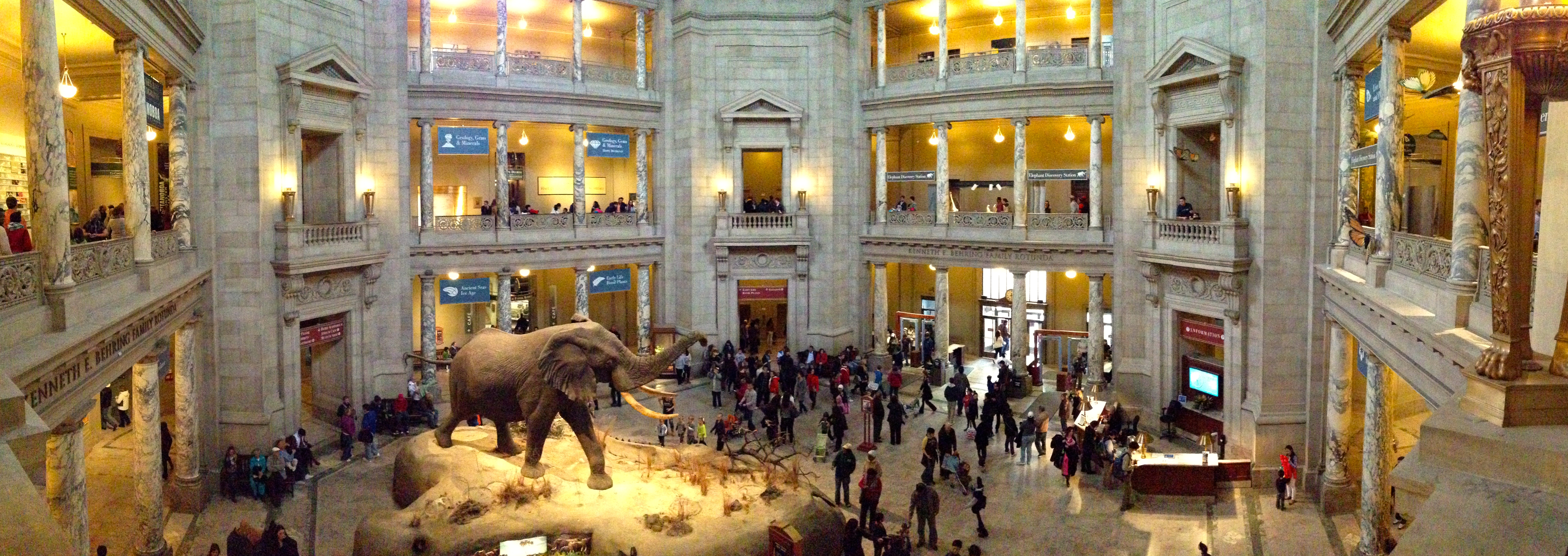 Panoramic view of the Rotunda at the National Museum of Natural History, United States. National Museum of Natural History Native nameNational Museum of Natural HistoryParent institutionSmithsonian InstitutionLocation10th Street / Constitution Avenue NWWashington, D.C. 20560United States of AmericaCoordinates38° 53′ 28.68″ N, 77° 01′ 33.24″ W Established1910Web Authority control : Q148554 VIAF: 134356831 ISNI: 0000 0004 5894 6464 ULAN: 500311469 LCCN: n78083411 NLA: 35376276 WorldCat institution QS:P195,Q148554